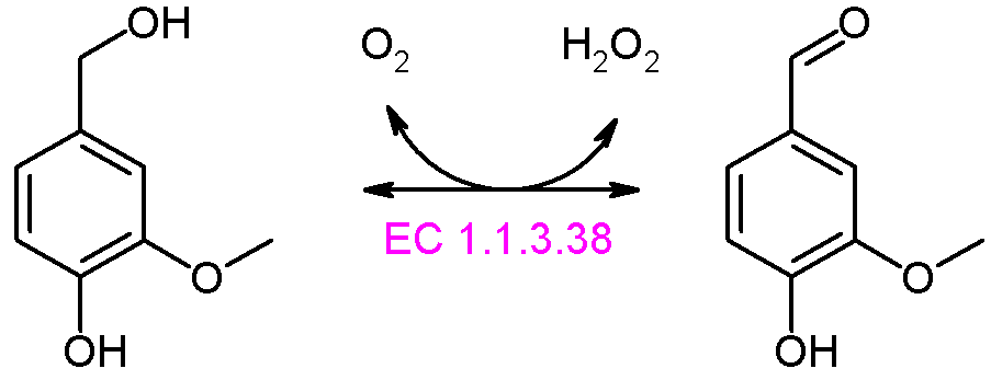 Vanillyl-alcohol_oxidase_reaction